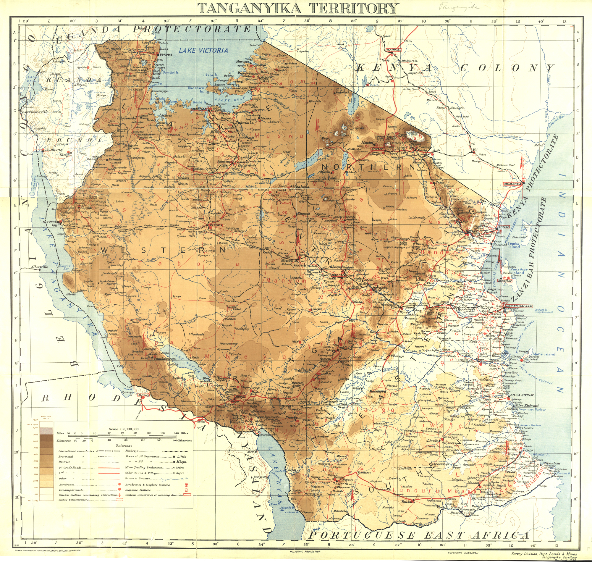 Tanganyika Territory F13 by Survey division, dept. lands and mines Tanganyika territory (year: 1926 or 1936, not visible on original map). NOTE: This is the 1936 revision of the 1933/1934 1:2m production, sent from Dar for publication in Scotland. See CO 1047/169 at UK National Archives.